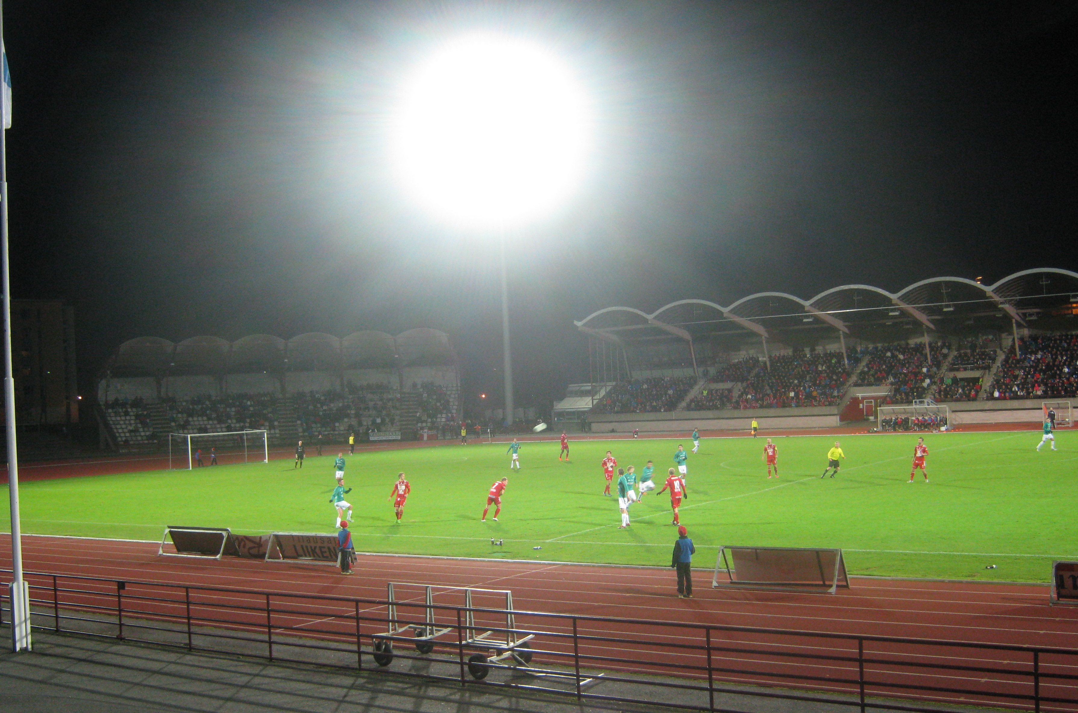 2103 promotion playoffs for Finnish second tier Ykkönen. FC Jazz vs. Ekenäs IF at Pori Stadium.